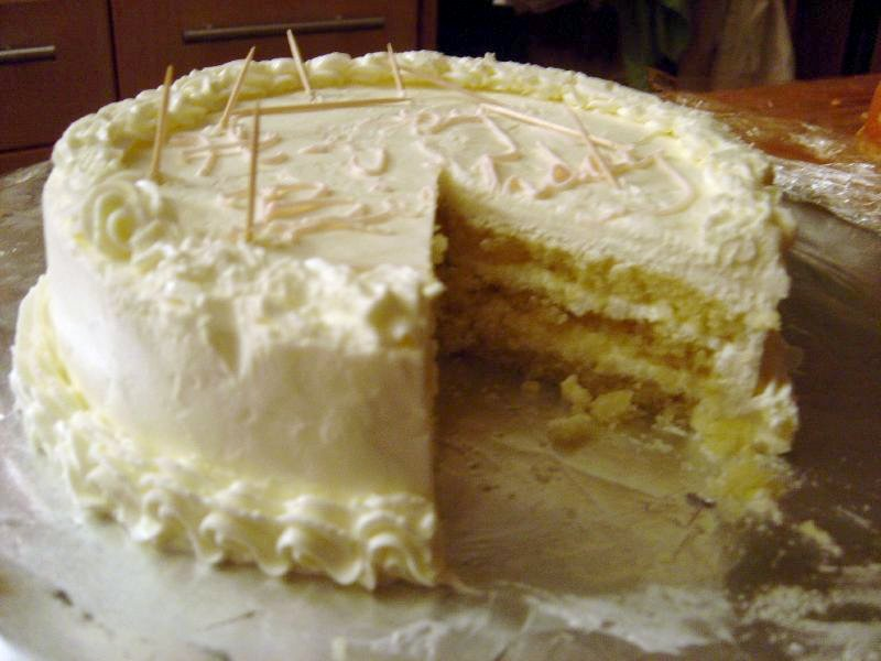 Thin layers of a genoise soaked in grand marnier sugar syrup and frosted with an Italian buttercream (sugar, water, egg whites, and butter)